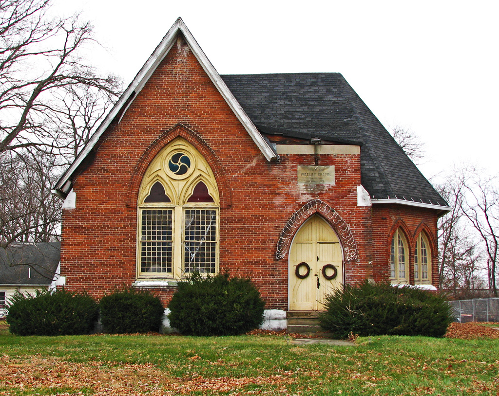 Front of the former Wesley Chapel, located off U.S. Route 23 at Hopetown in Springfield Township, Ross County, Ohio, United States. Built in 1834, it is listed on the National Register of Historic Places.